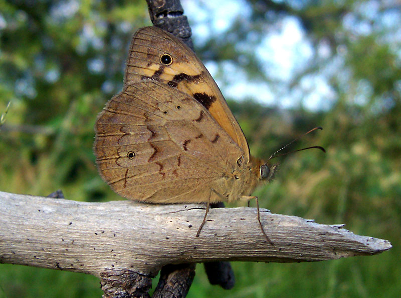 Geitoneura klugii